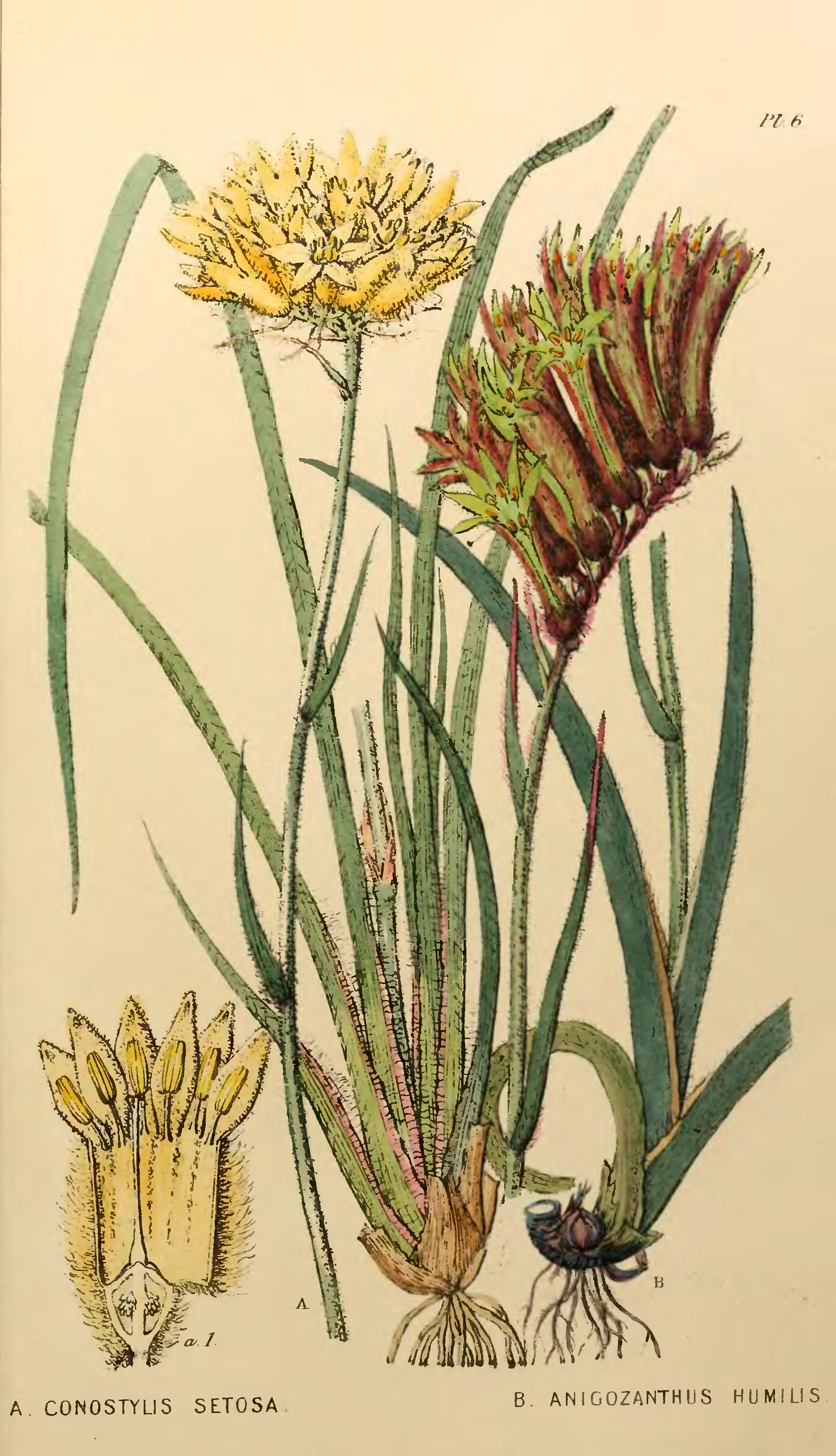 This is a plate from A sketch of the vegetation of the Swan River Colonyby John Lindley. The plants depicted are Conostylis setosa and Anigozanthus humilis (now spelled Anigozanthos humilis)